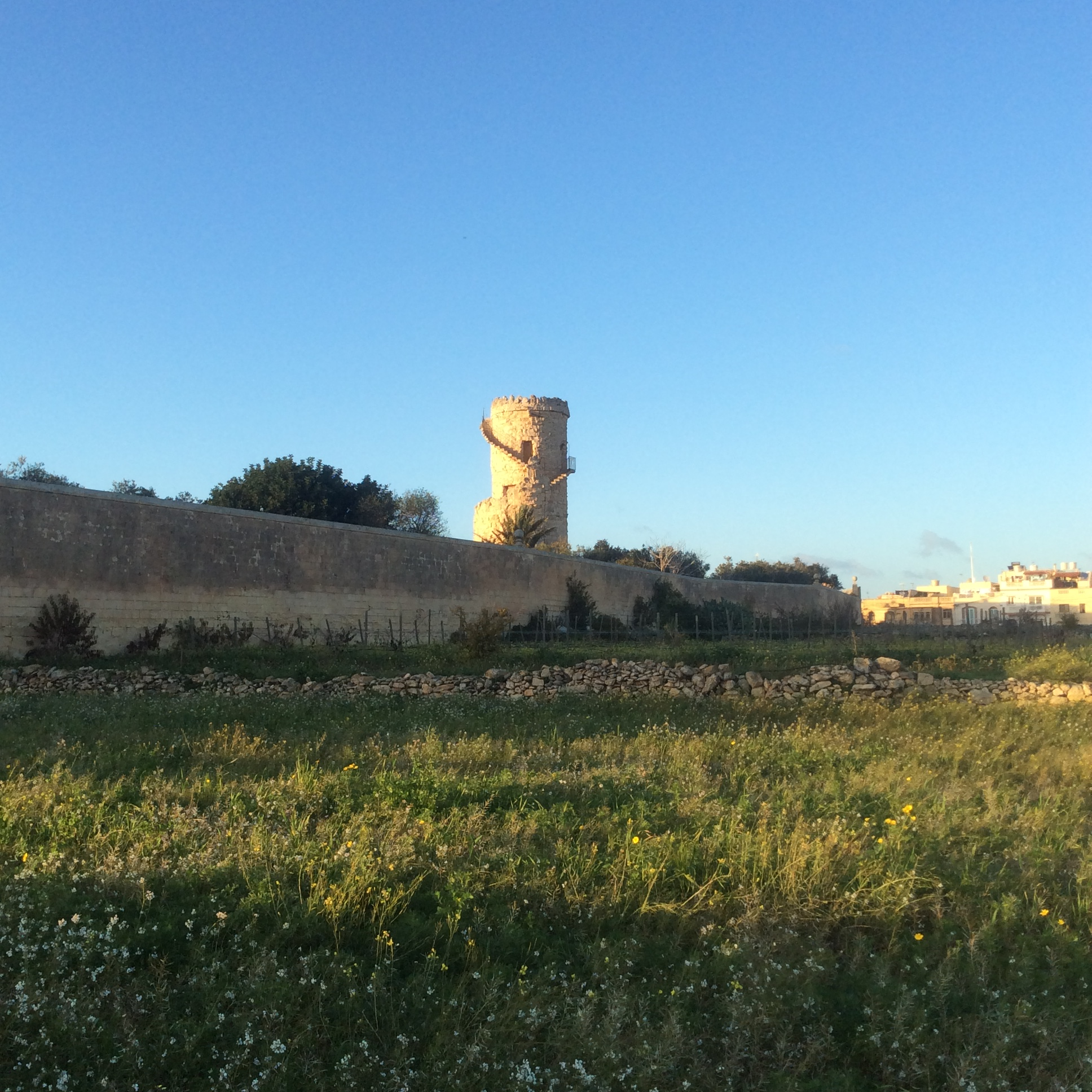 Xlejli Tower. The Tower was built much before the palace's construction. The palace is Palazzo Dorell. The tower is found in its gardens.